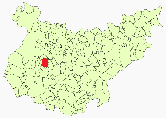 Santa Marta de los Barros